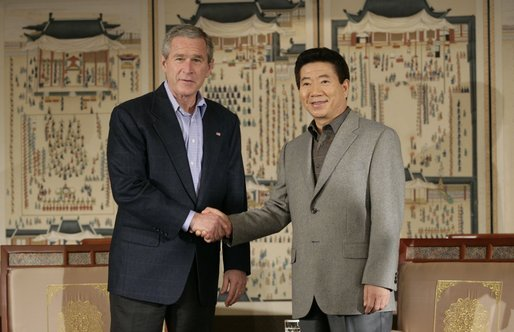 U.S. President George W. Bush and South Korean President Moo Hyun Roh exchange handshakes Thursday, Nov. 17, 2005, after their meeting at the Hotel Hyundai in Gyeongju, Korea. White House photo by Eric Draper. (Press release)